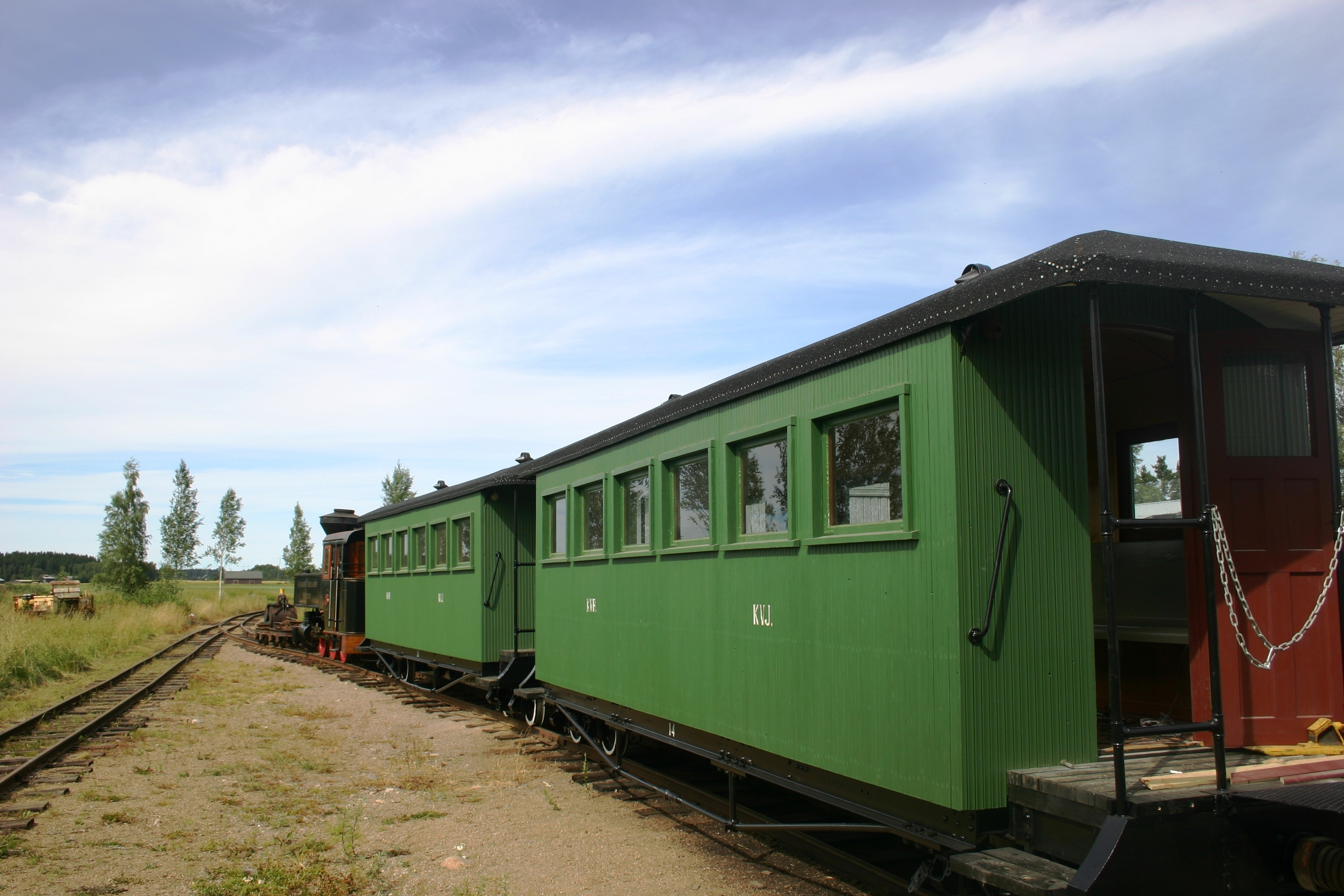 Narrow gauge coaches of Kuusankoski-Voikka railway at Minkiö station in Jokioinen museum railway, Finland